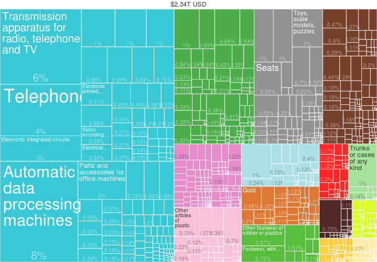 2014 China Products Export Treemap